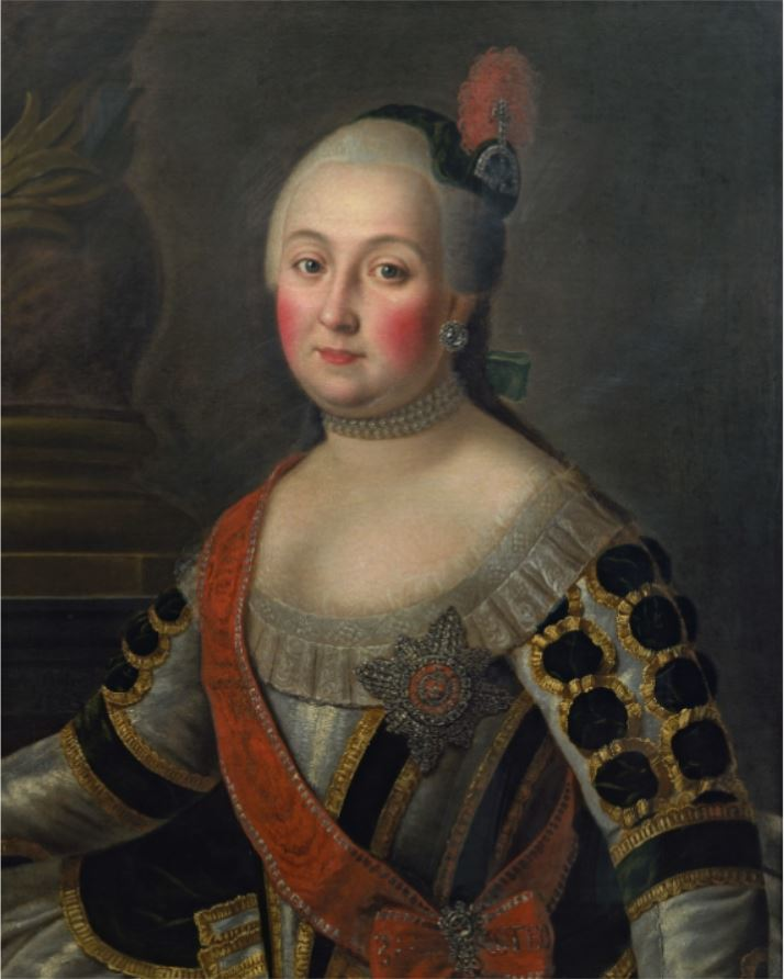 Portrait of Anna Karlovna Vorontsova, nee Skavronskaya. Wife of Mikhail Illarionovitch Vorontsov